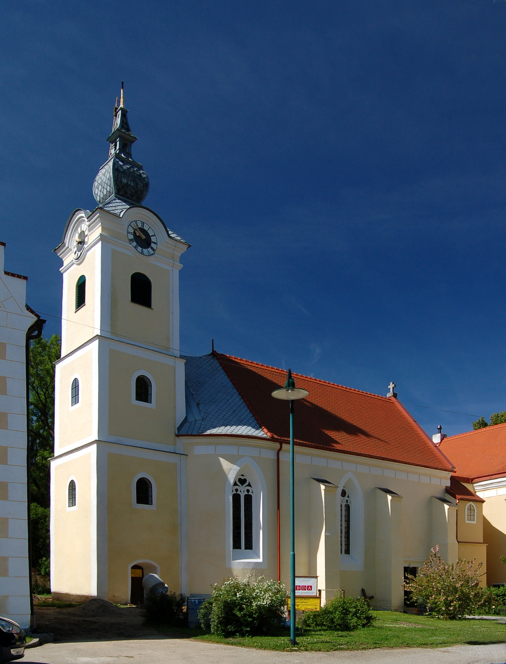 The parish church in Idolsberg, municipality Krumau am Kamp is a cultural heritage monument.